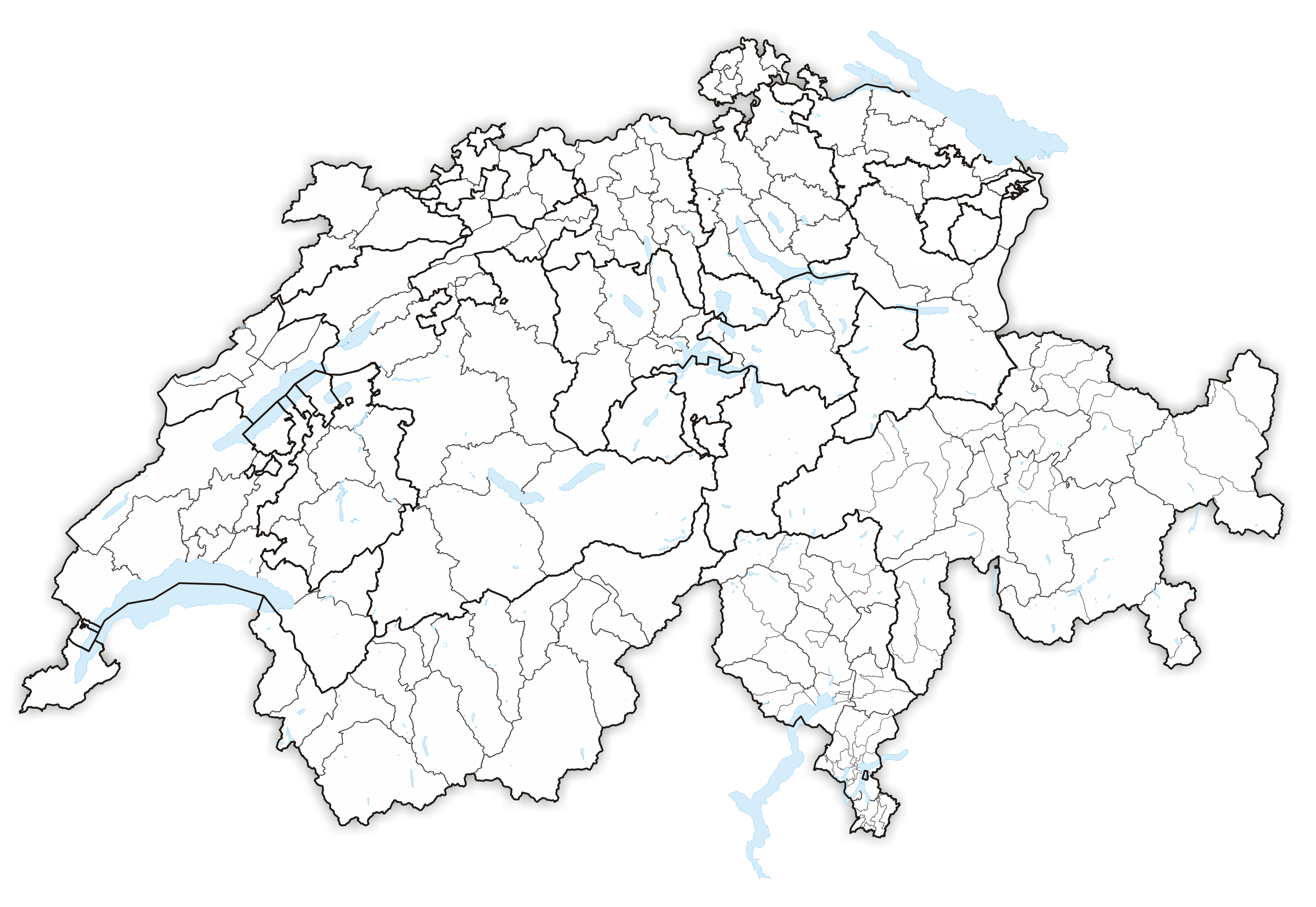 Districts and Sub Districts in Switzerland